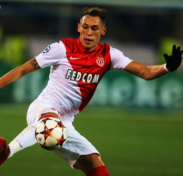 Lucas Ocampos